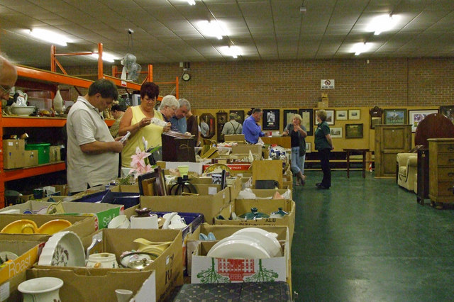 Brigg Auction Rooms. This is the Old Courts Auction Room of Brown & Co. on a Friday preview to one of their periodic Saturday auctions. For an example of one item up for sale see 542408.